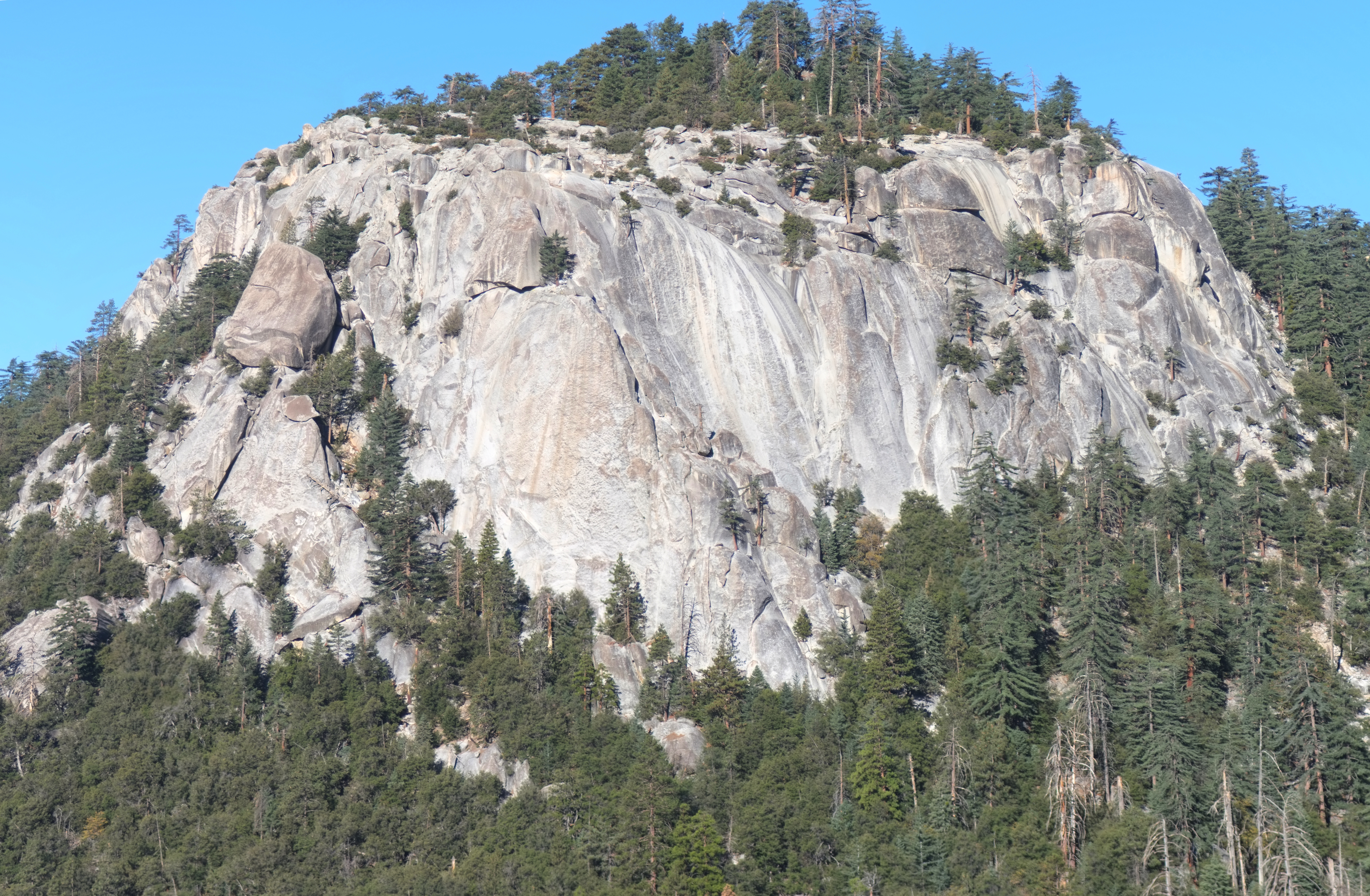 Suicide Rock in Idyllwild, CA, seen from the Devil's Slide trail. Panorama stitched from shots with a 135 mm lens. Morning.